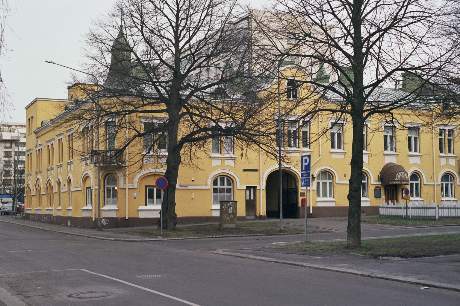 An old building at Väinölänkatu 1 in Tammela, Tampere, Finland. Occupying the building is at least Antika, a Greek style restaurant.